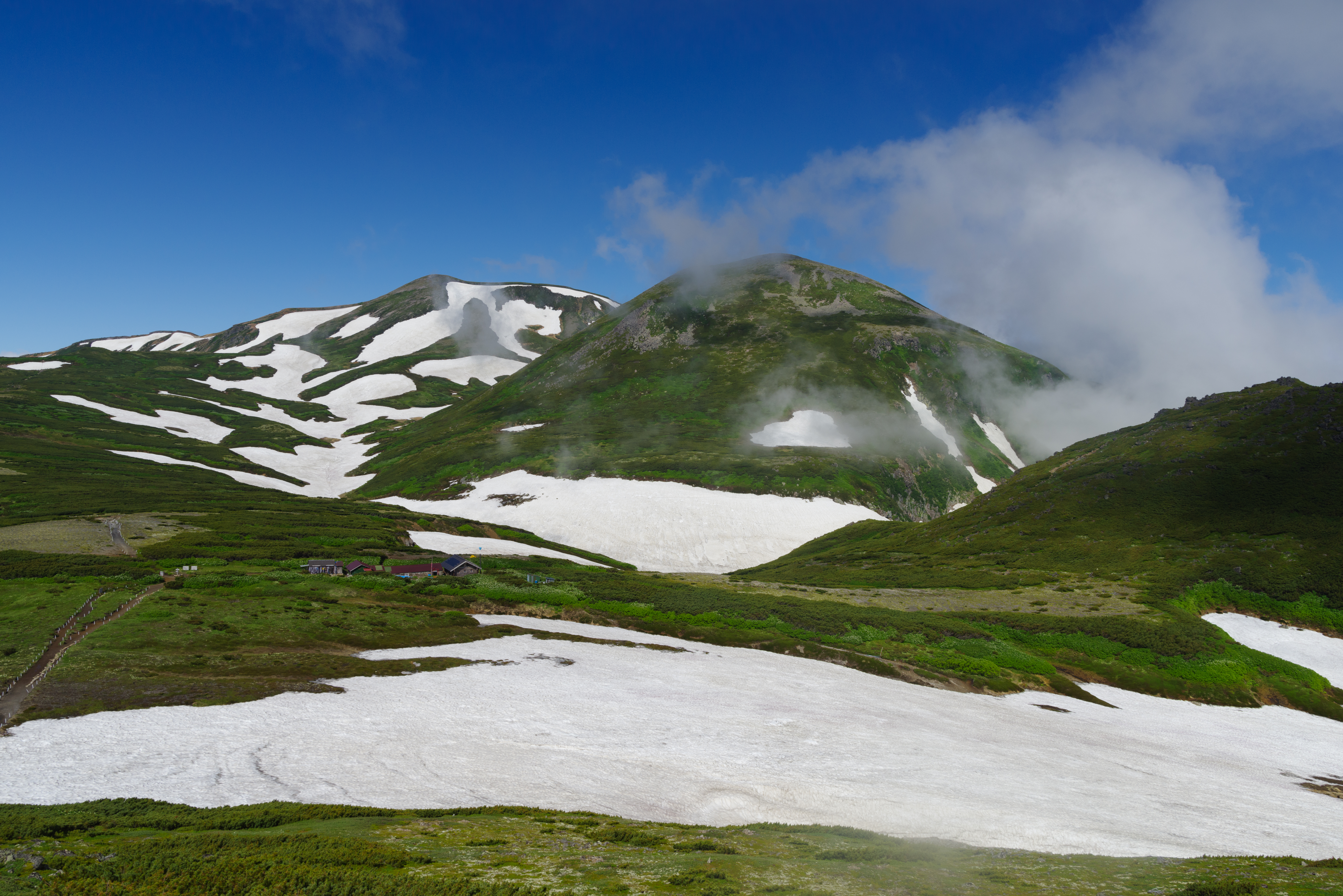 Mount Ryōun (right) & Mount Hokuchin (left) seen from the East in Daisetsu volcanos, Hokkaido.